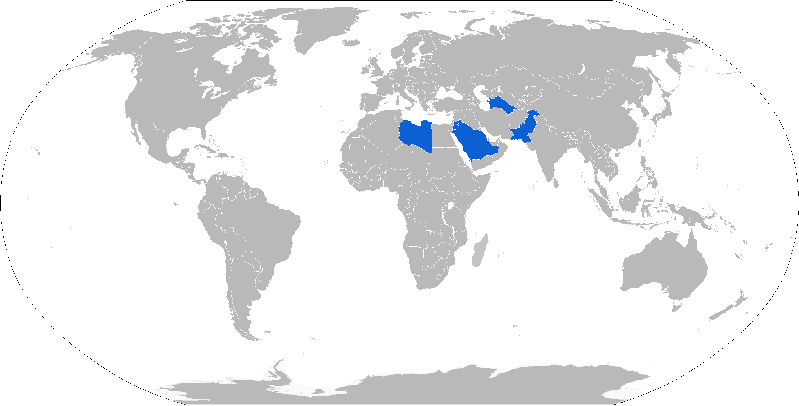 Map with Selex ES Falco operators in blue